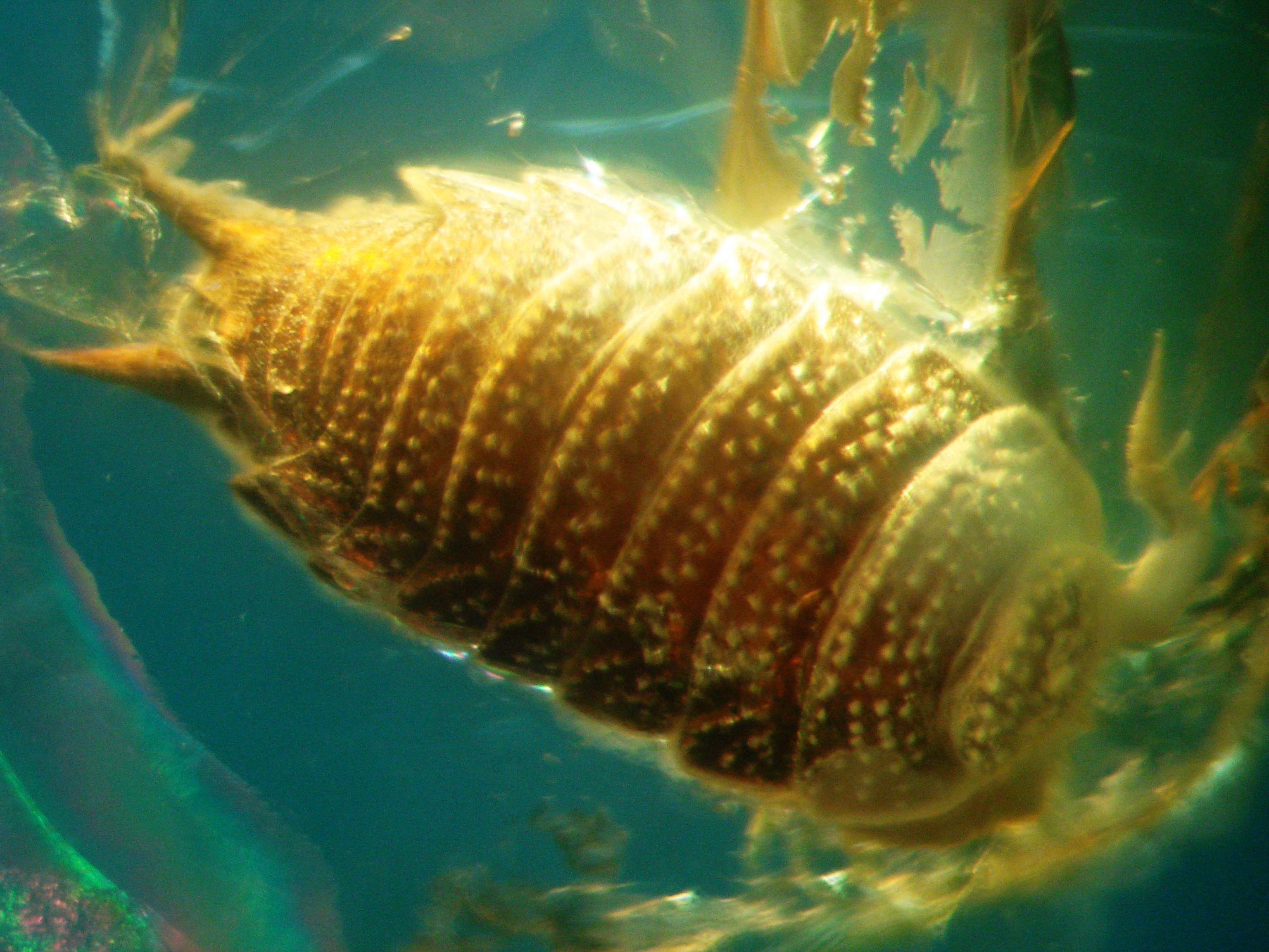 Baltic amber inclusions - 40-50 million years old - (Arthropoda, Malacostraca, Isopoda, ...?) - About 3 mm long.